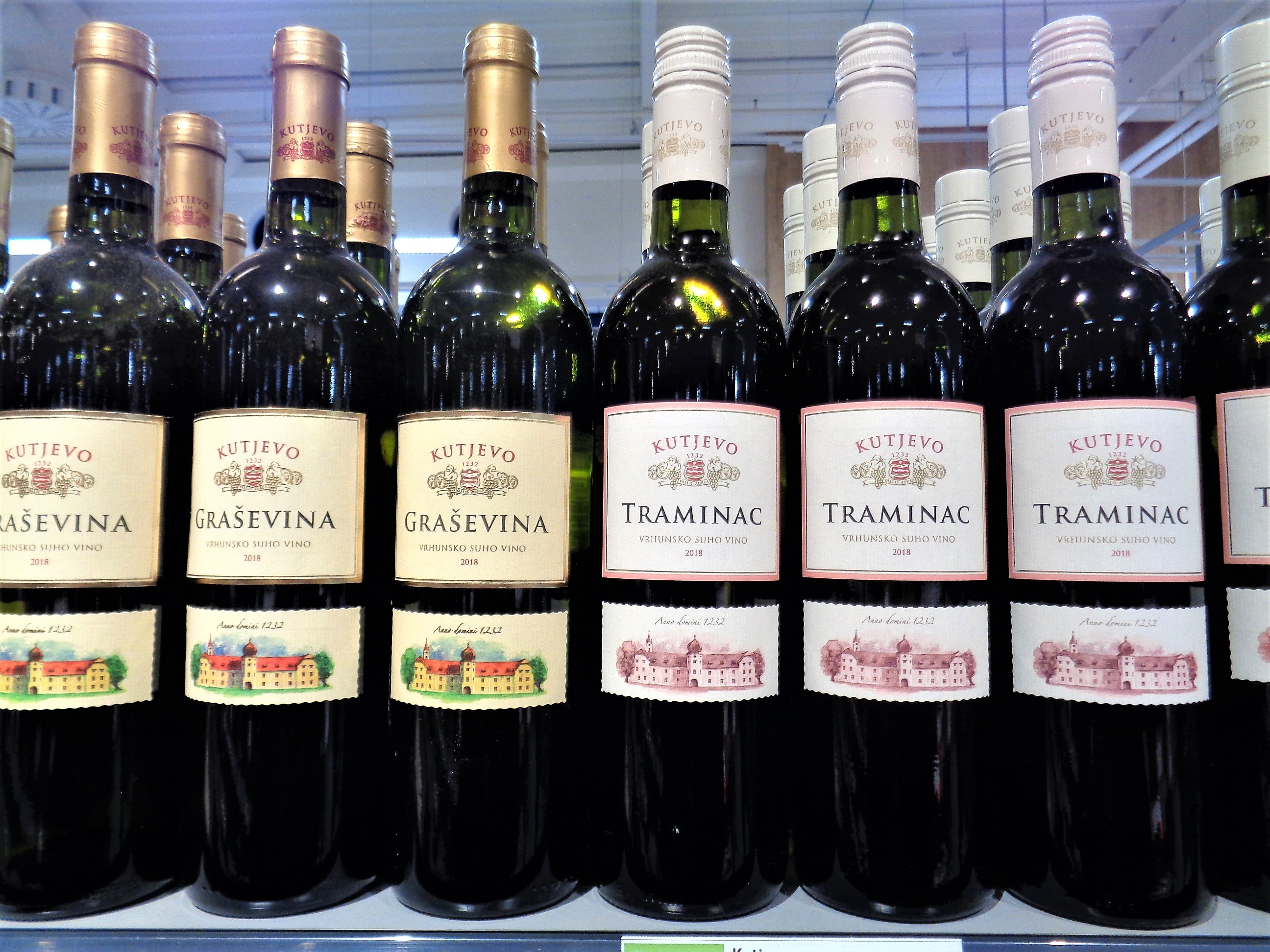 Bottles of Graševina wine (Welshriesling) and Traminer wine, superior quality dry white wine, produced in Kutjevo, Požega-Slavonia County, eastern Croatia (2018 vintage)